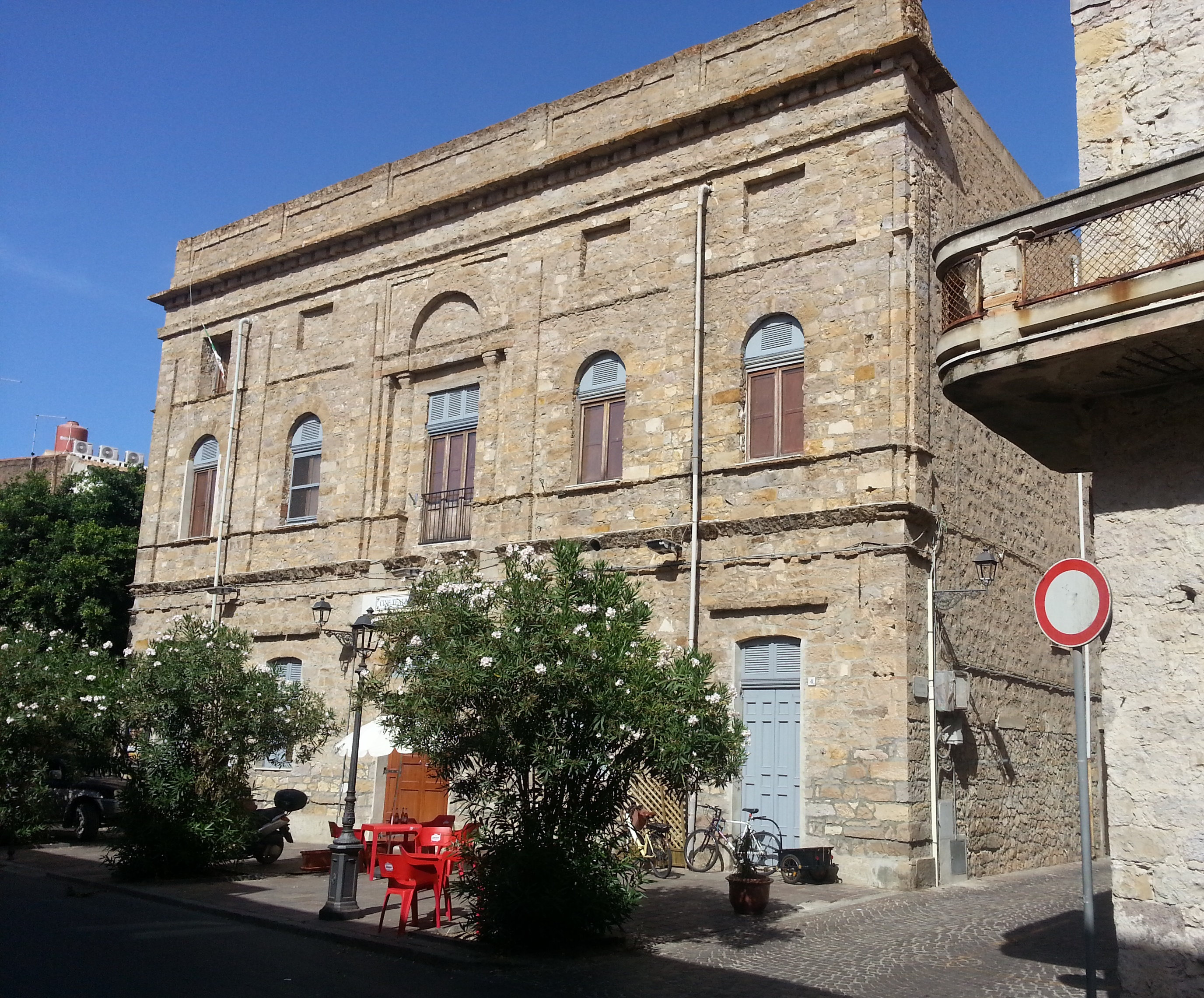 West facade of Palazzo Cavallera Theatre in Carloforte, Sardinia